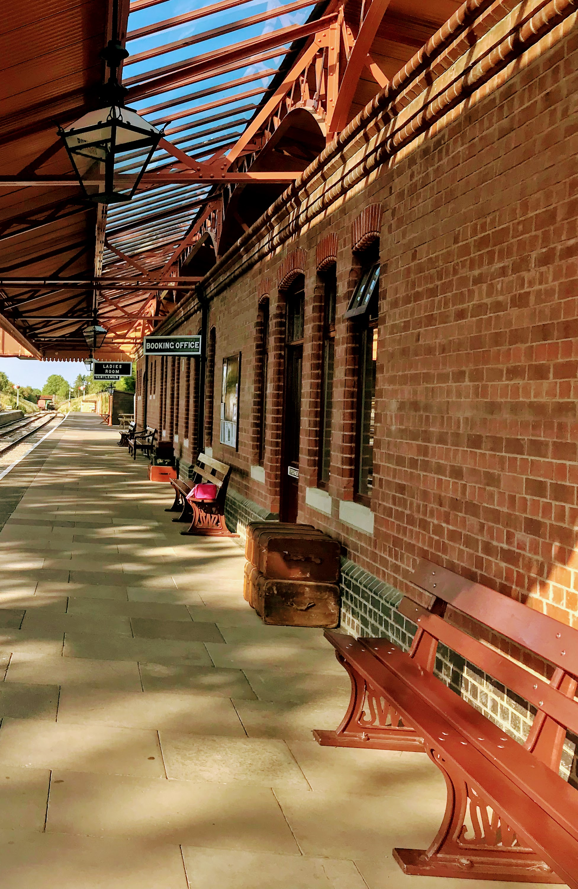 A platform view of the Station in August 2018